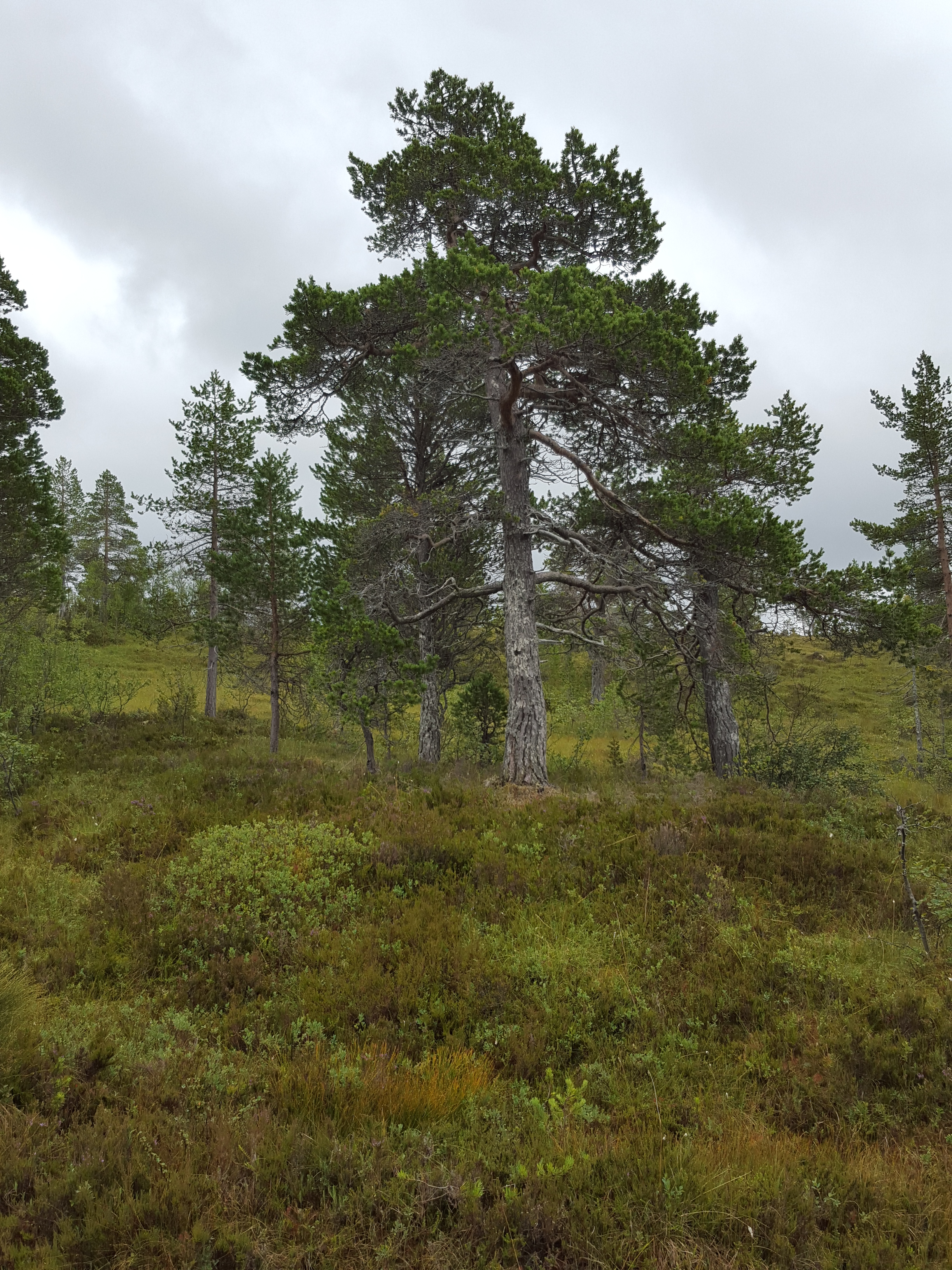 Large, old, Pinus sylvestris, in Grytdalen nature-reserve, Sør_Trøndelag, Norway